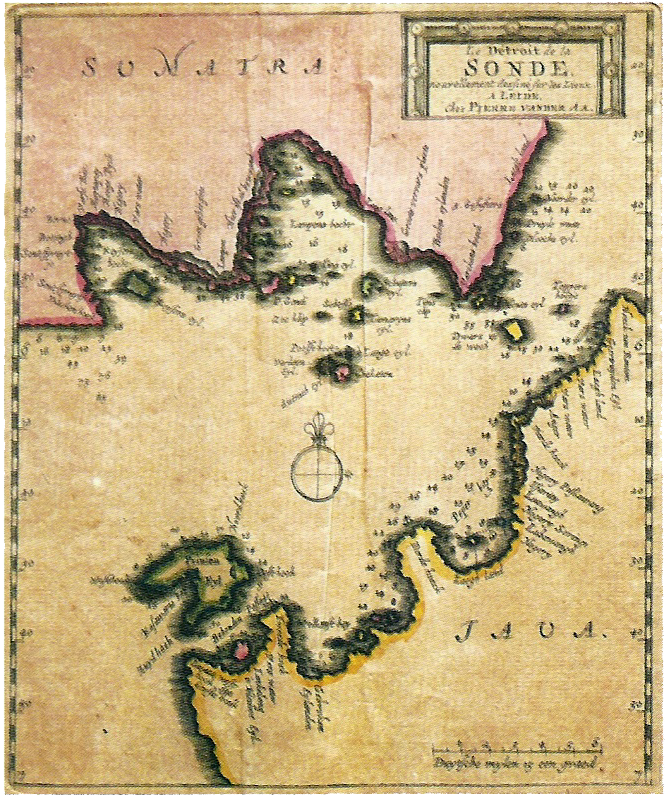 A map created by Pierre (Pieter) Van der Aa in 1729, showing the Sunda Strait. The depth is marked by different colours.